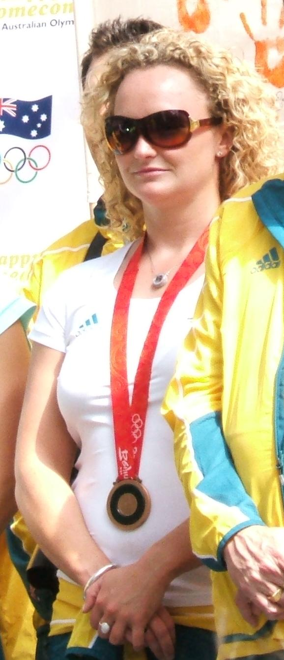 Hannah Davis at the 2008 Olympic welcome home parade in Adelaide